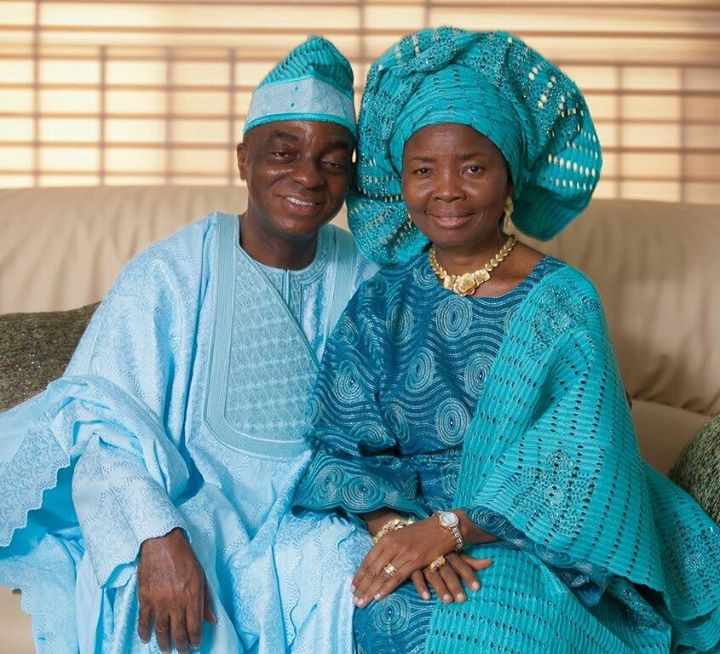 Oyedepo the head overseer of Living Faith church with his wife Faith Oyedepo wear a full Nigerian artier